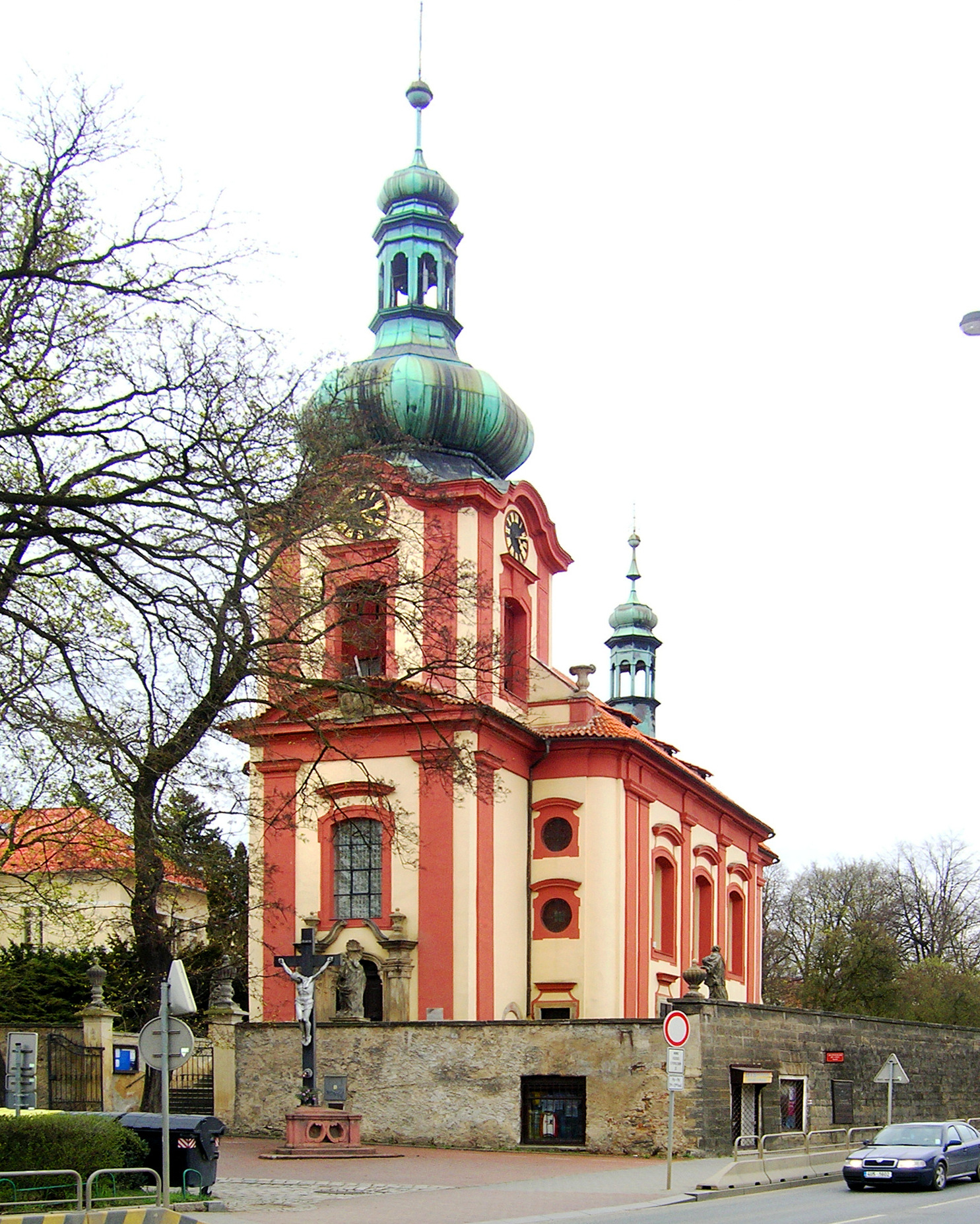 Všech svatých Church in Smiřických square in Uhříněves, Prague